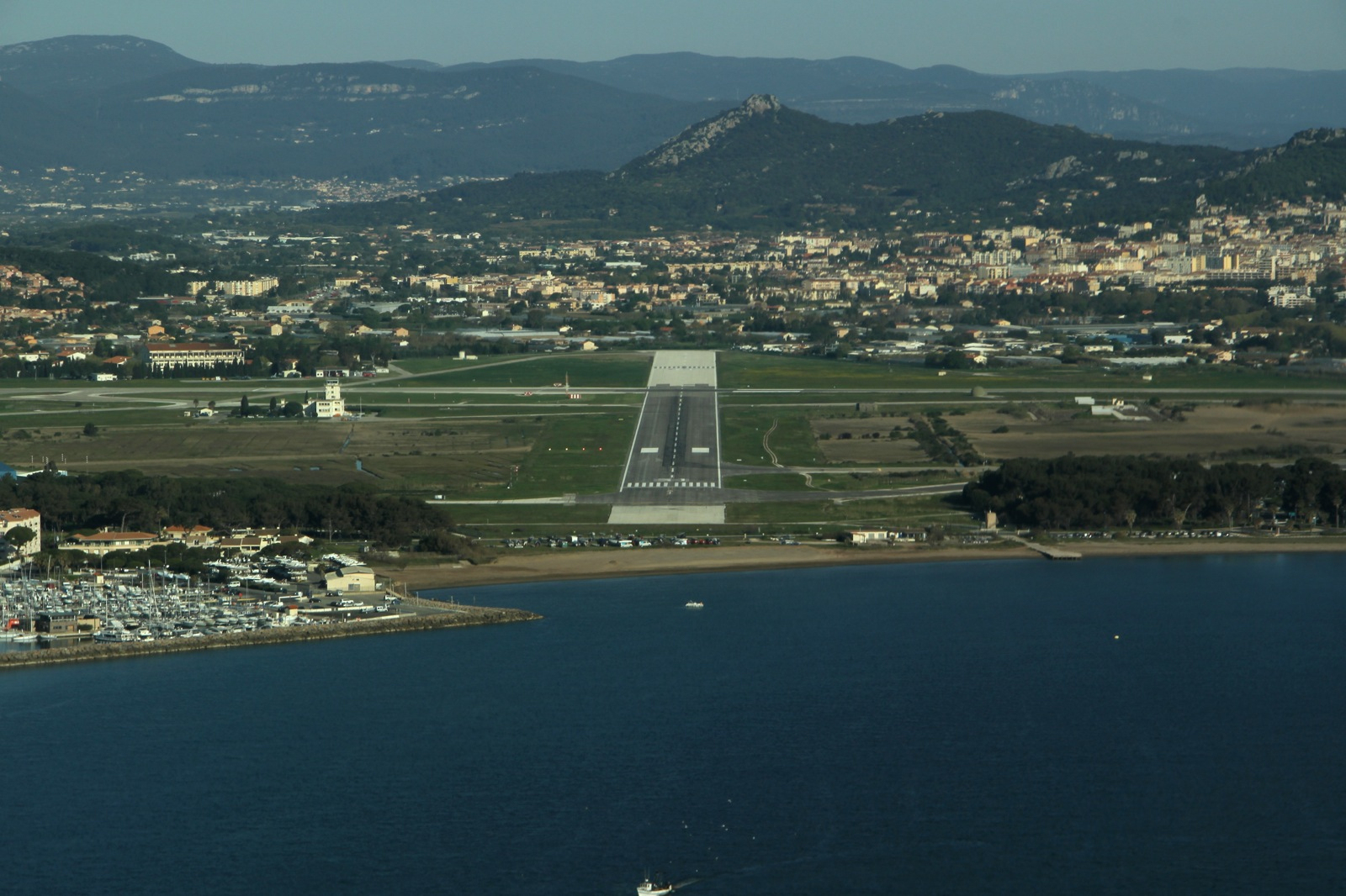 Aerial view of Aéroport de Toulon-Hyères